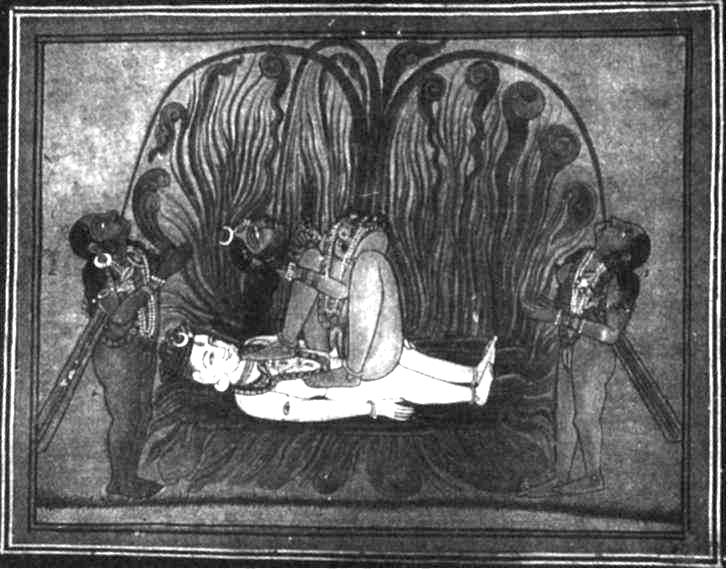 Chinnamasta and Shiva